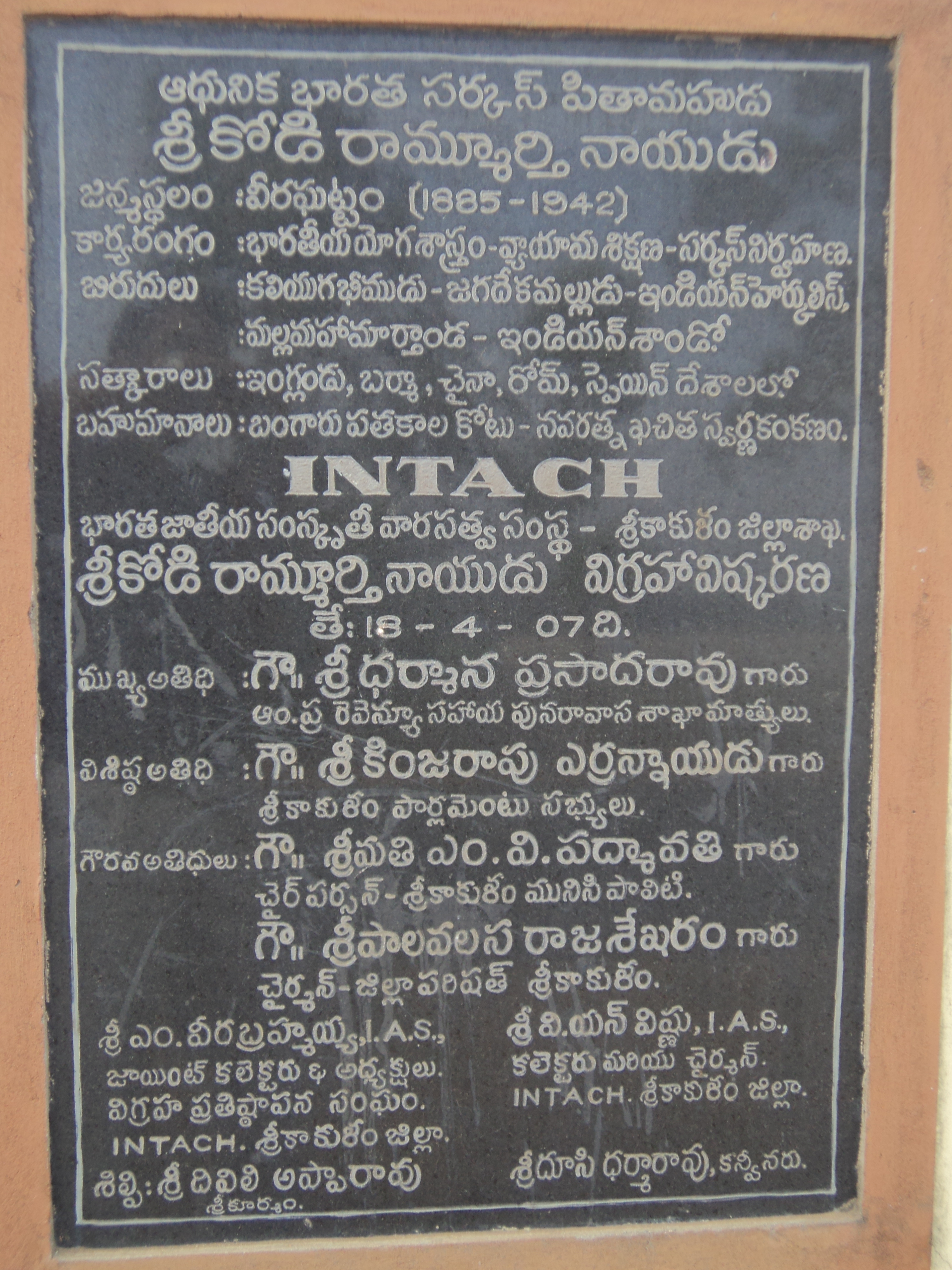 This is photograph of Information plate below the statue of Kodi Ramamurthy in Srikakulam taken by me.Rajasekhar1961 (talk) 13:32, 22 February 2012 (UTC)